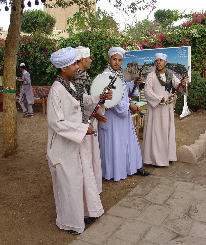 Egyptian musicians wearing gellabiyas (also spelled jellabiyas).